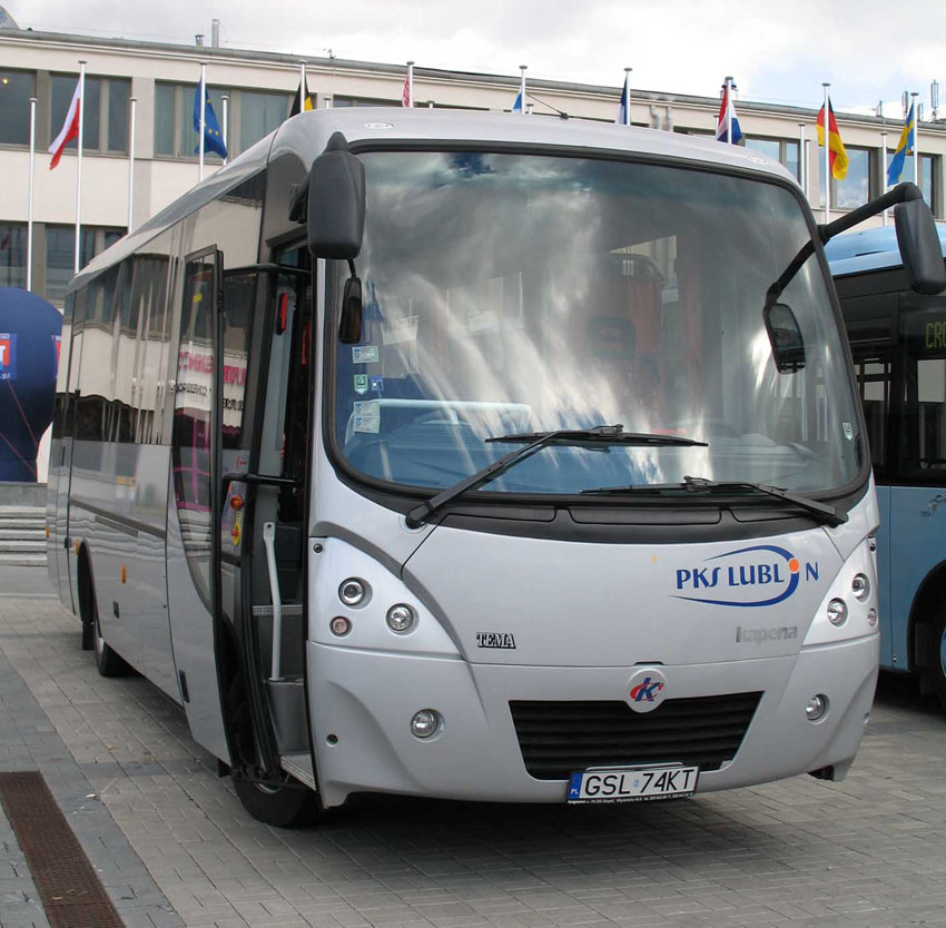 Kapena Tema bus in Kielce, Poland. Built 2007, Transexpo 2007. Base on Iveco/Irisbus EuroMidi chassis.